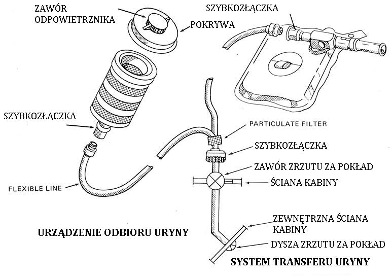 Apollo urine collection systems - the urine receptacle assembly and urine transfer system.